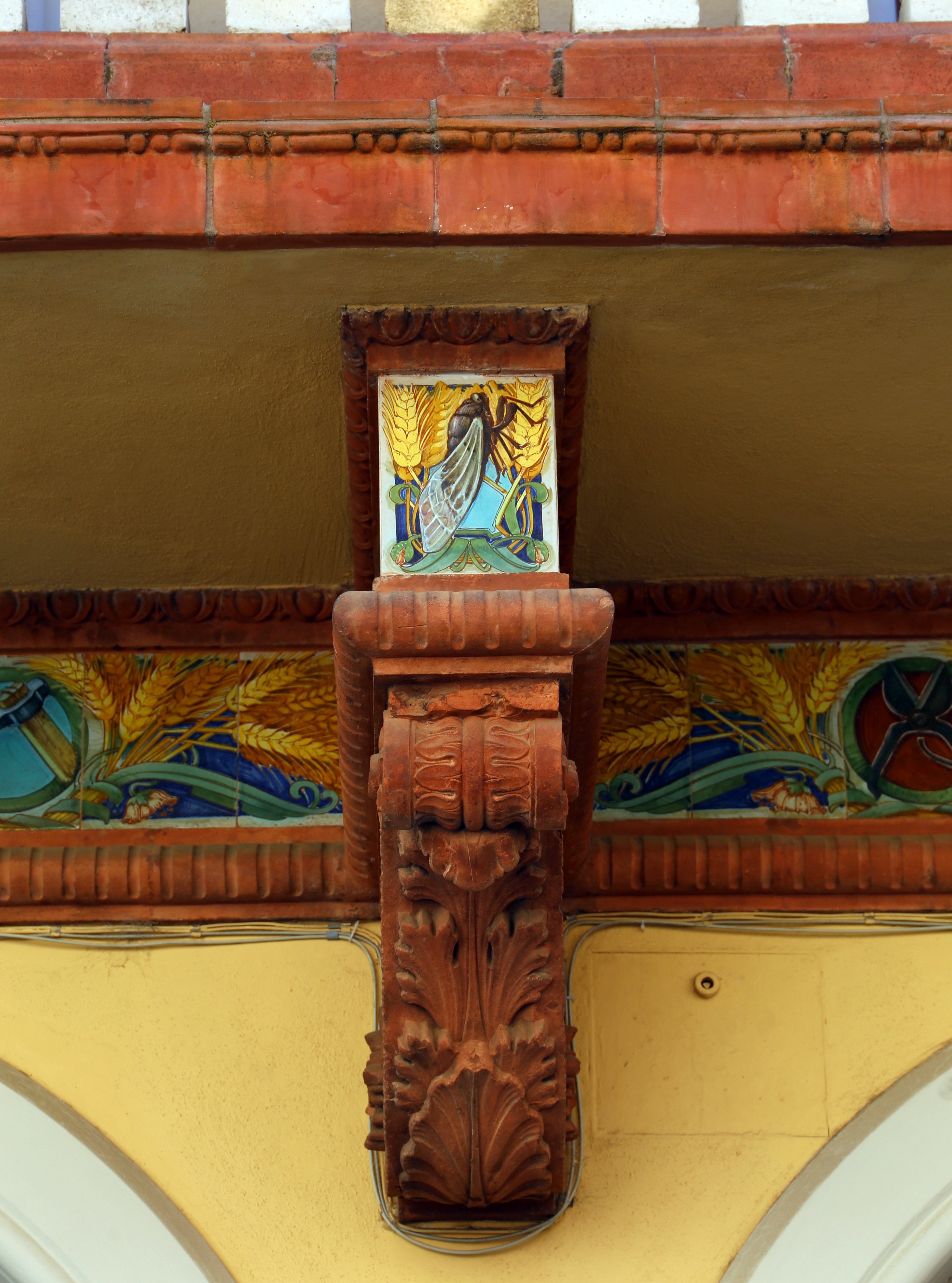 Buildings in Grosseto